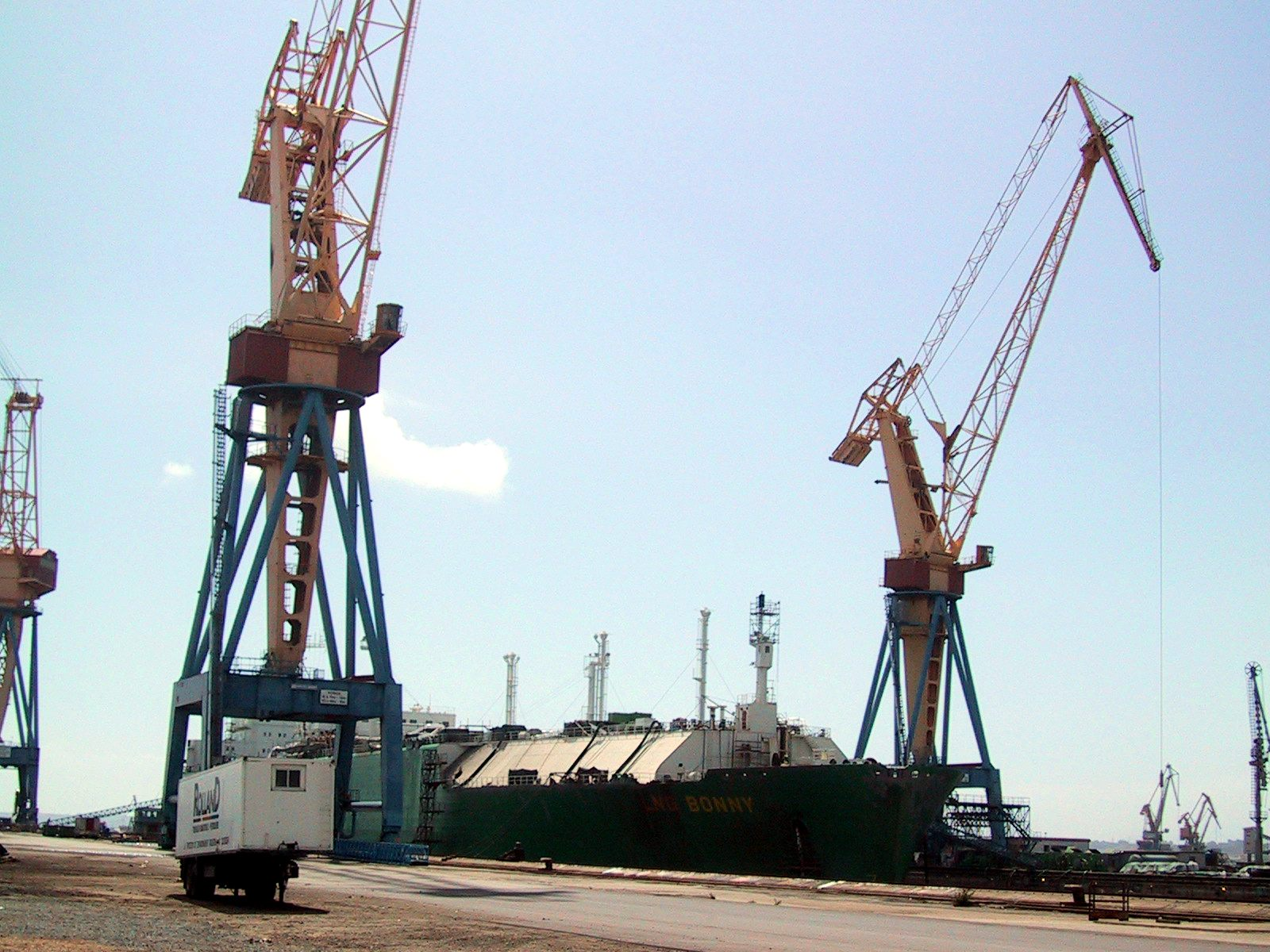 Liquid natural gas tanker LNG BONNY in Brest for a maintenance stop.